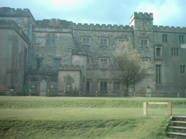 Another view of Elvaston Castle, Derbyshire. Photo Taken: 12/04/08